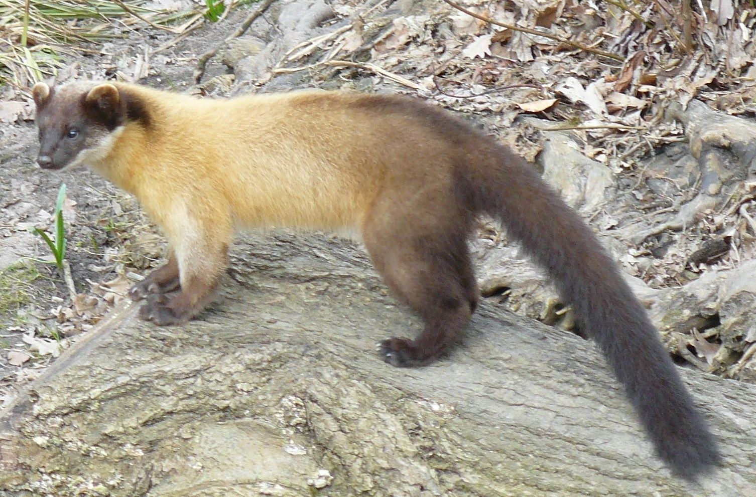 Martes flavigula in Nuremberg Zoo (Tiergarten Nürnberg), Germany